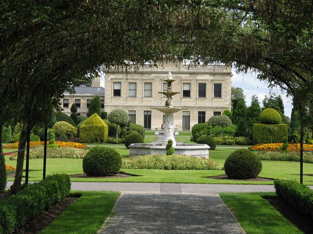 Brodsworth Hall Photograph was taken facing east from the area of the rockery.